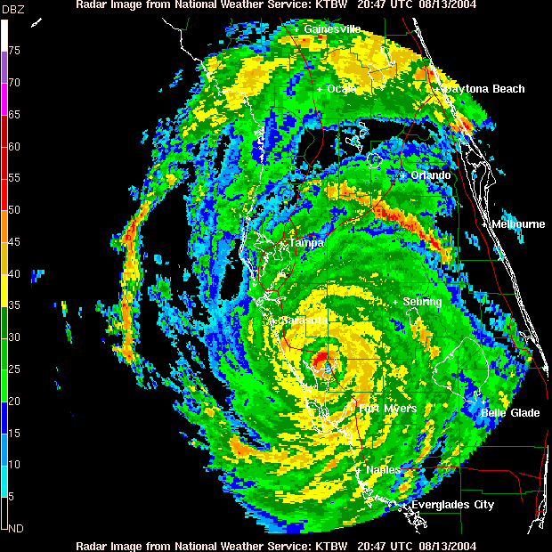 NEXRAD radar image of Hurricane Charley moving over Punta Gorda, Florida. Downloaded from at 20:47 UTC or 16:47 EDT local time.